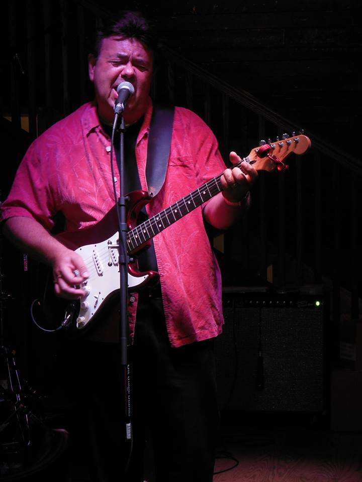 My picture of Son Lewis performing at local concert. Used with his permission.